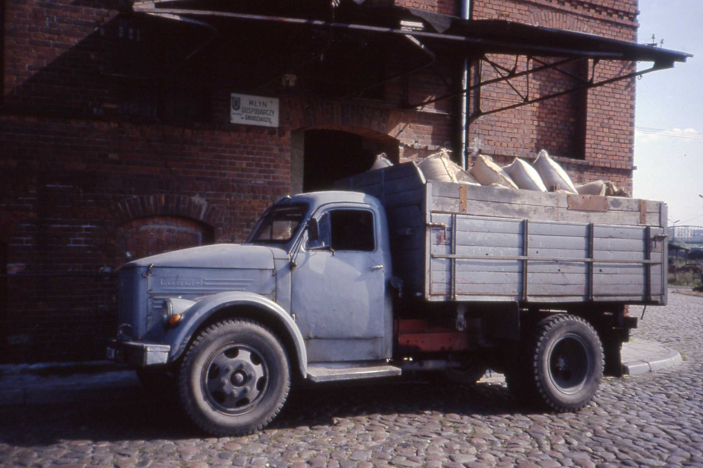 FSC Lublin-51 truck in front of a Grudziadz Agricultural Mill.